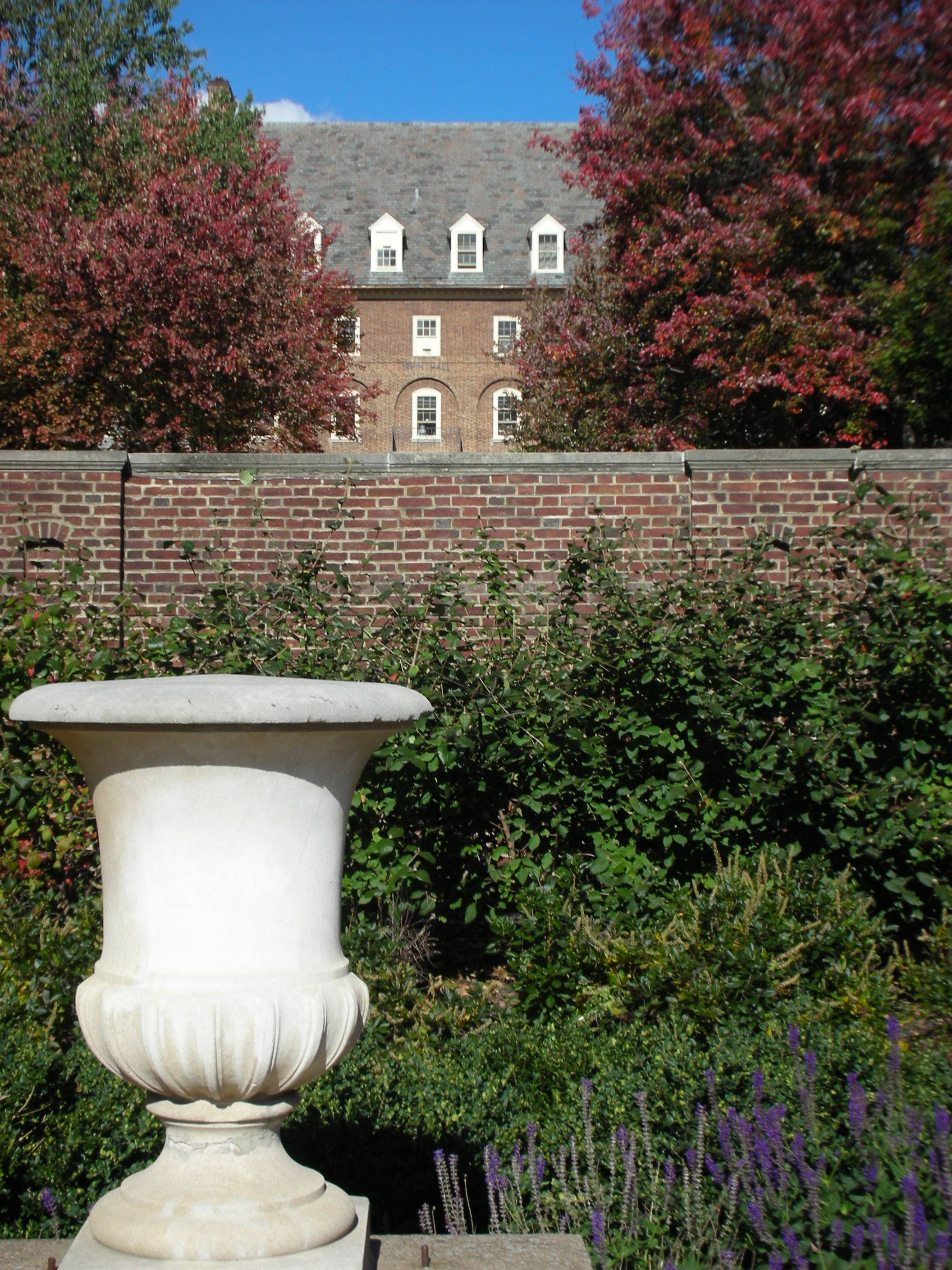 A residence hall in West Halls I took this in the fall of 2006.